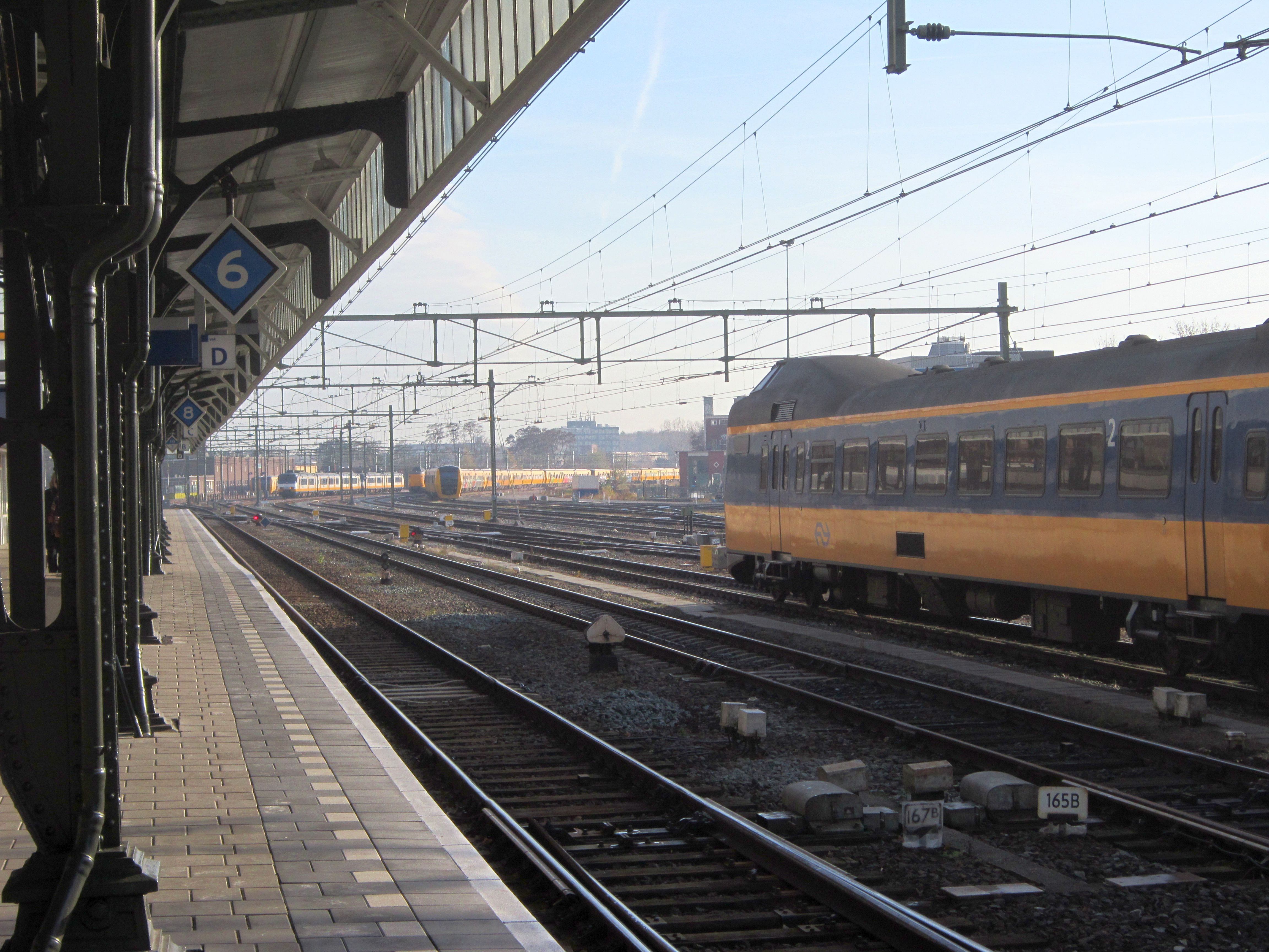 Hengelo railway station platform, with the marshalling yard visible in the background